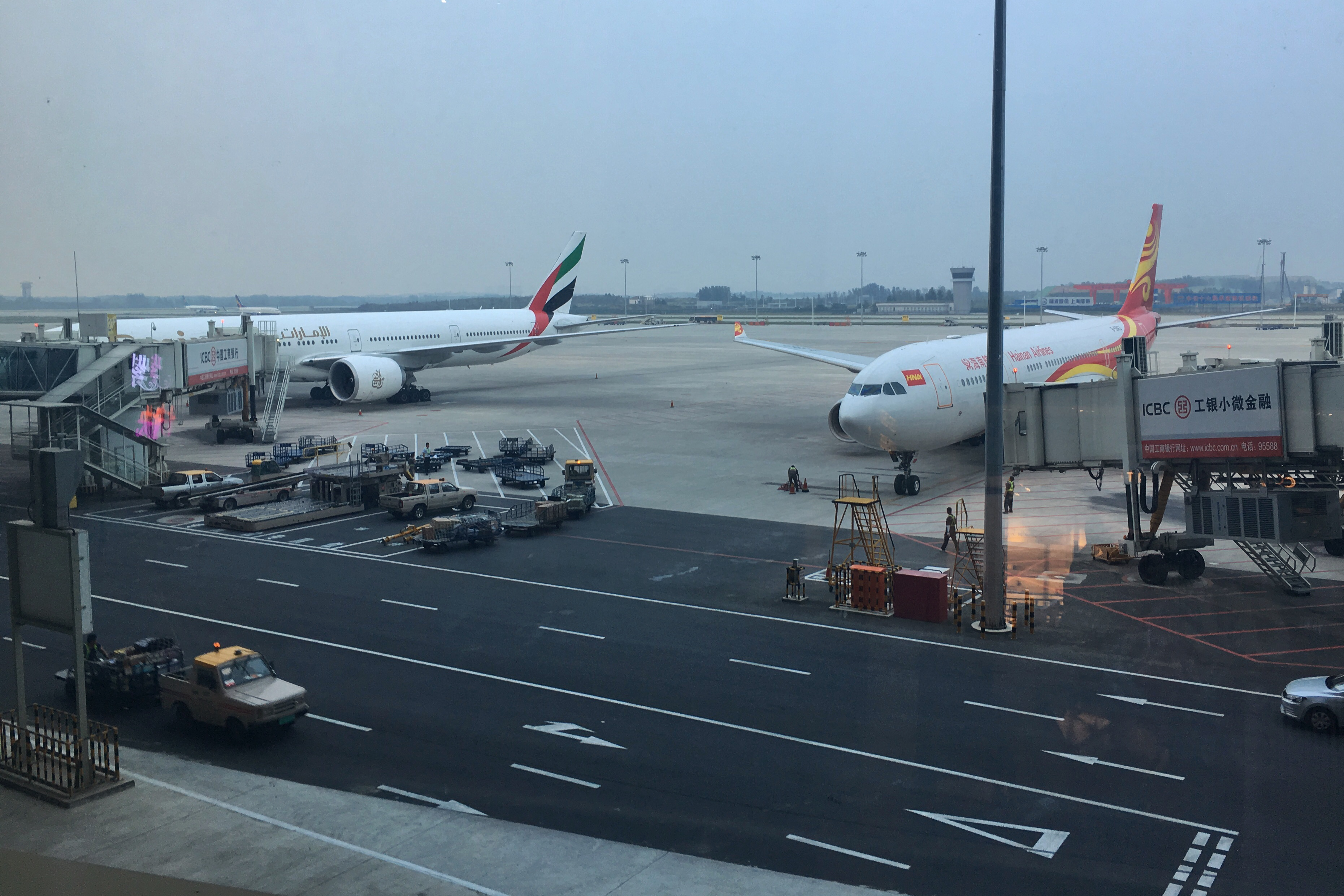 A Hainan Airlines A330 and an Emirates B777 at CGO